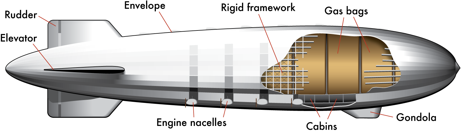 Diagram of the structure and elements of a rigid dirigible, similar to the design of the United States ZRS-4 USS Akron or USS Macon. Note the four engines visible on one side, each with its exhaust gas condensor device.